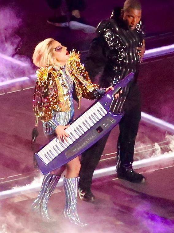 Lady Gaga performing Just Dance during halftime